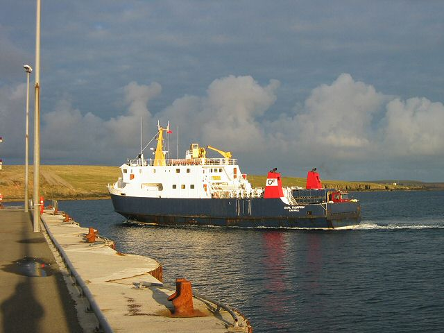 Ferry at Whale Geo pier, Westray. This is Earl Thorfinn, docking before returning to Kirkwall.